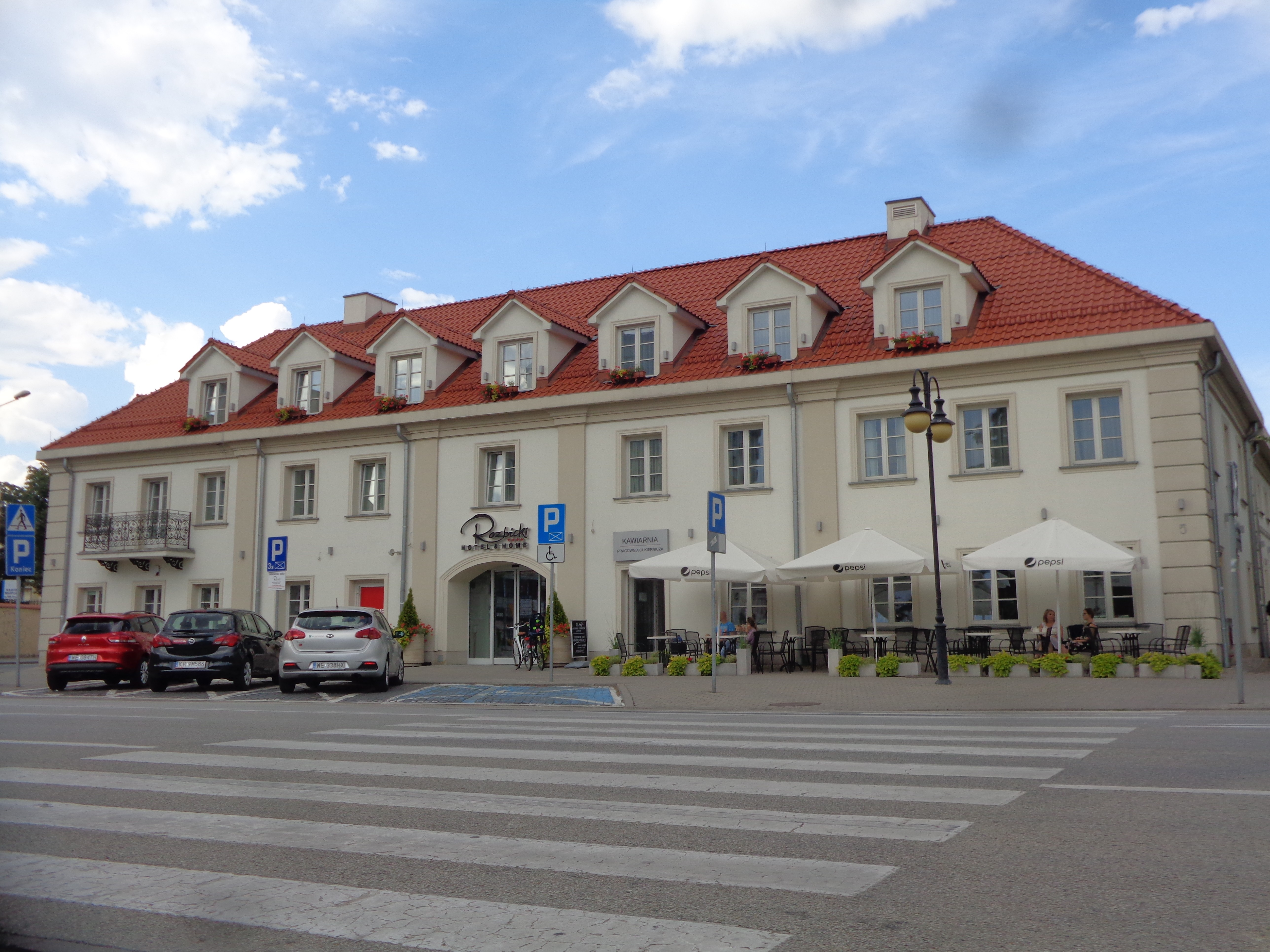 Rozbicki Hotel in Włocławek, view from Wolności Square.